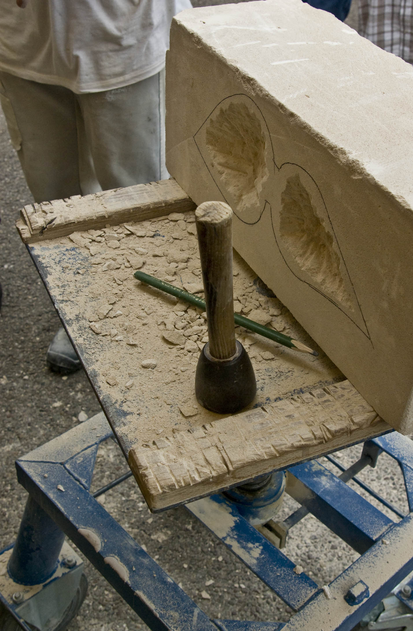 Stonemasonry